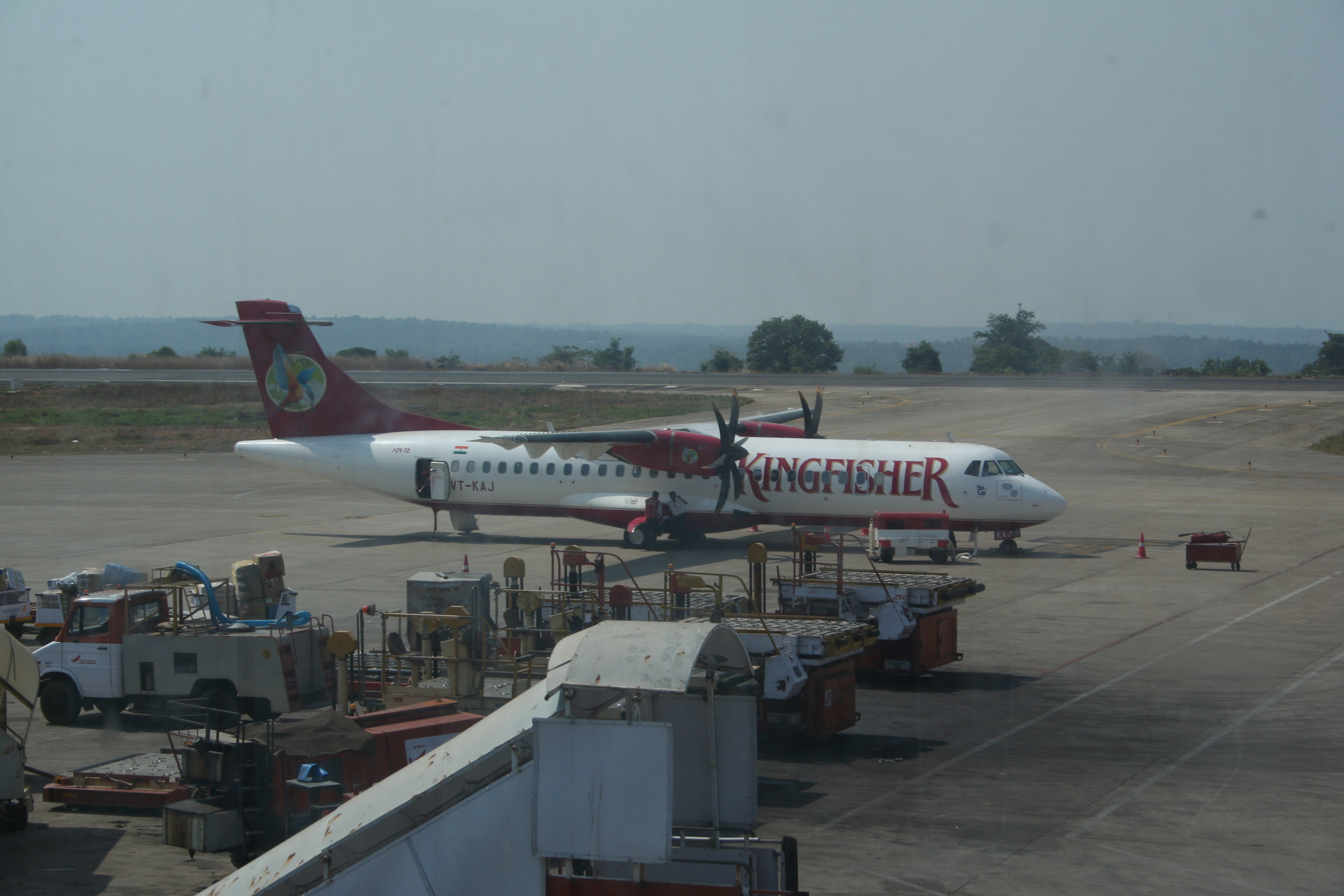 KingFisher ATR flight at CCJ